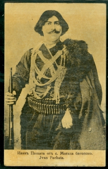 Portrait of IMARO member Ivan Pashata)